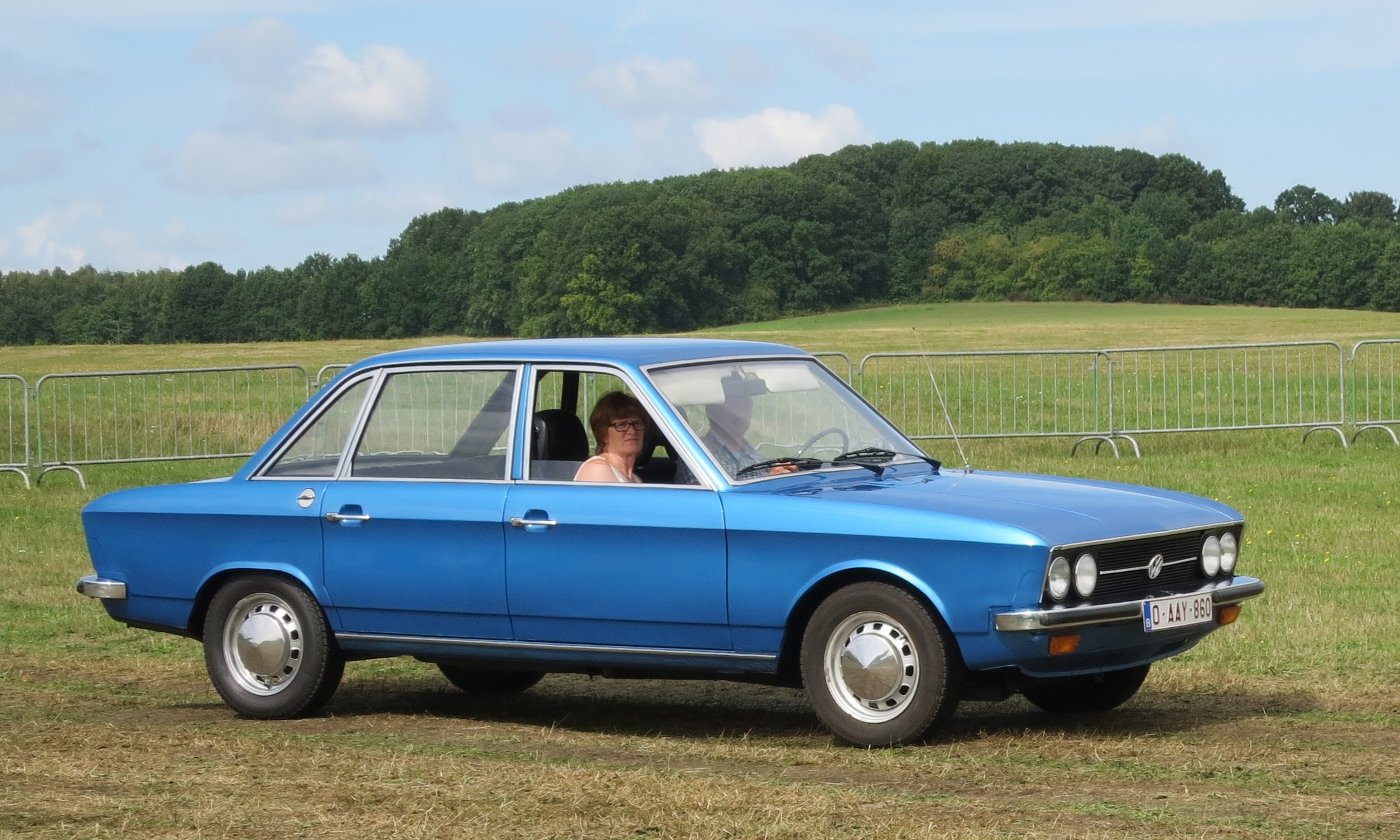 Volkswagen K70 in Belgium